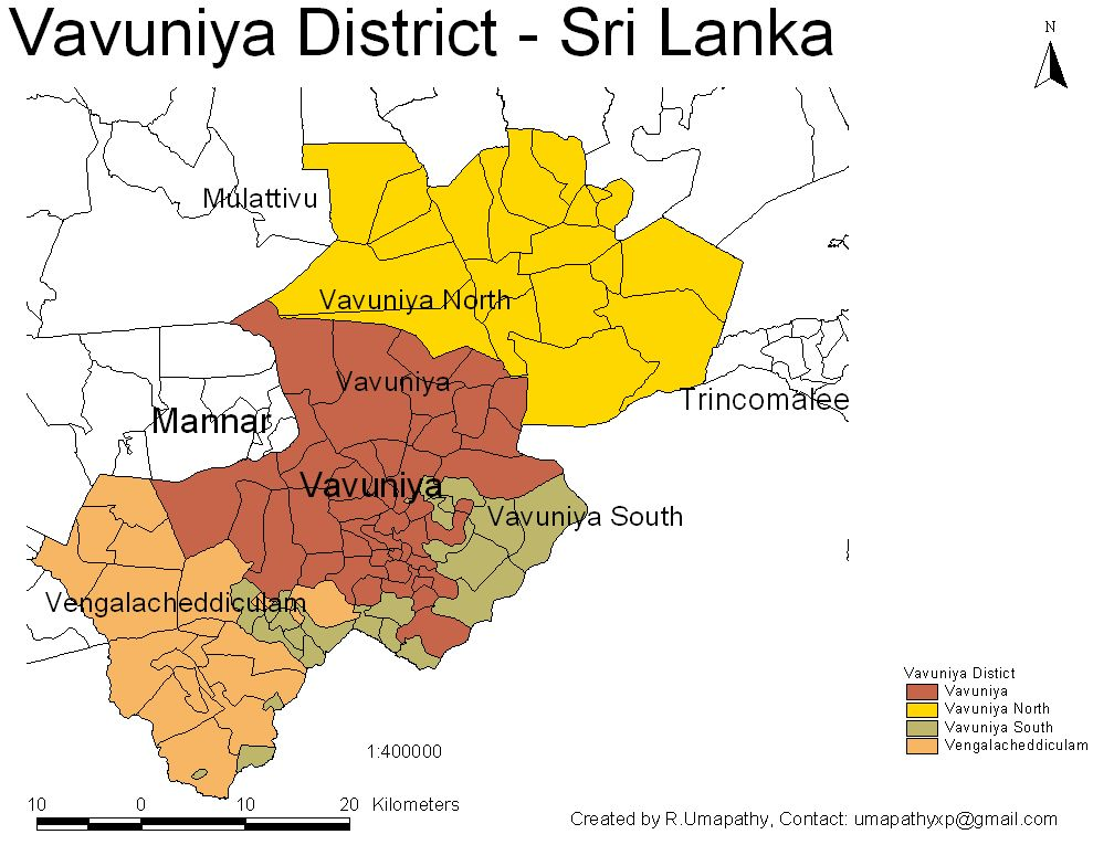 This is a map of vavuniya district in Sri Lanka